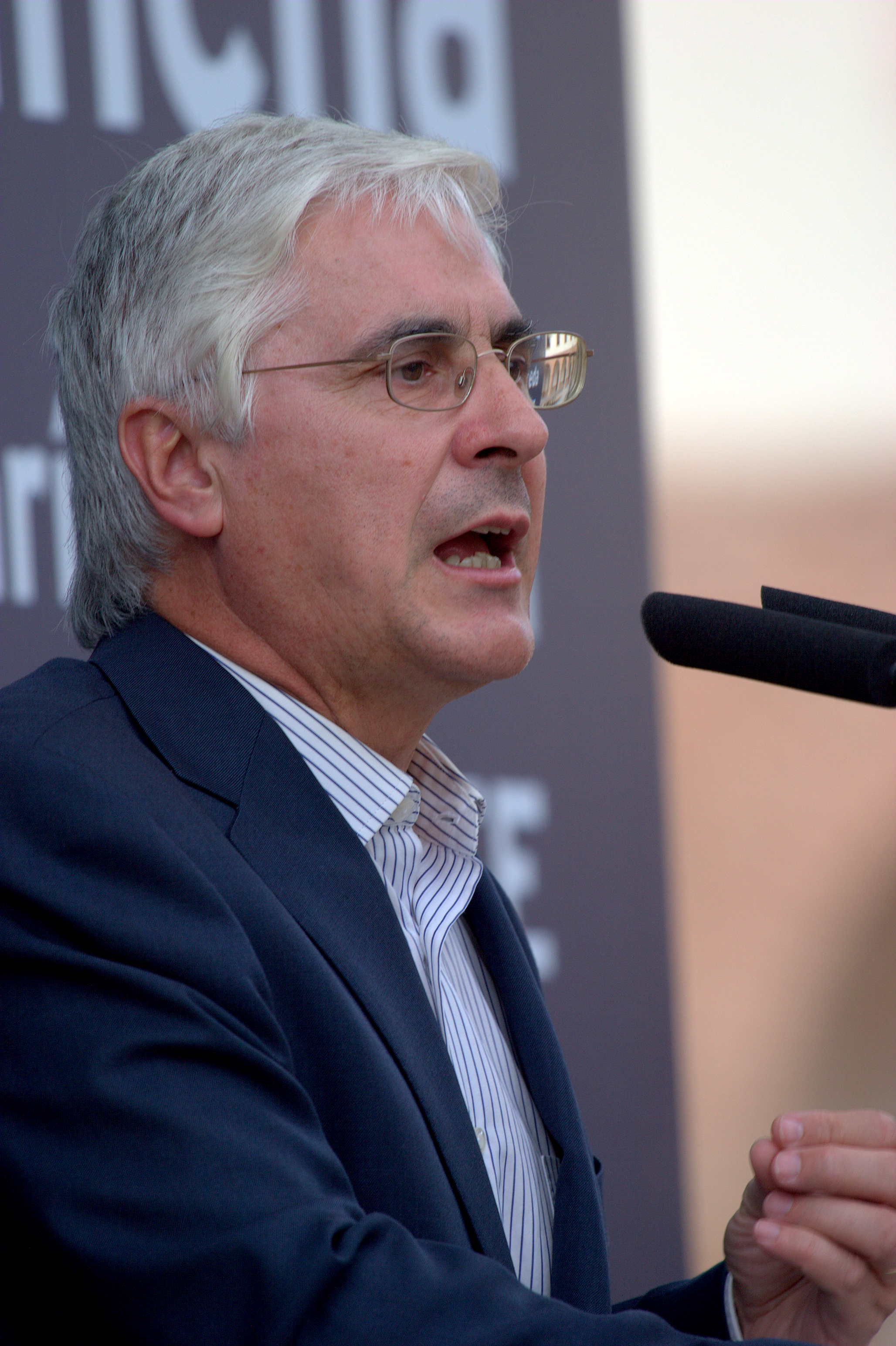 José María Barreda during the 2007 campaign at Madridejos